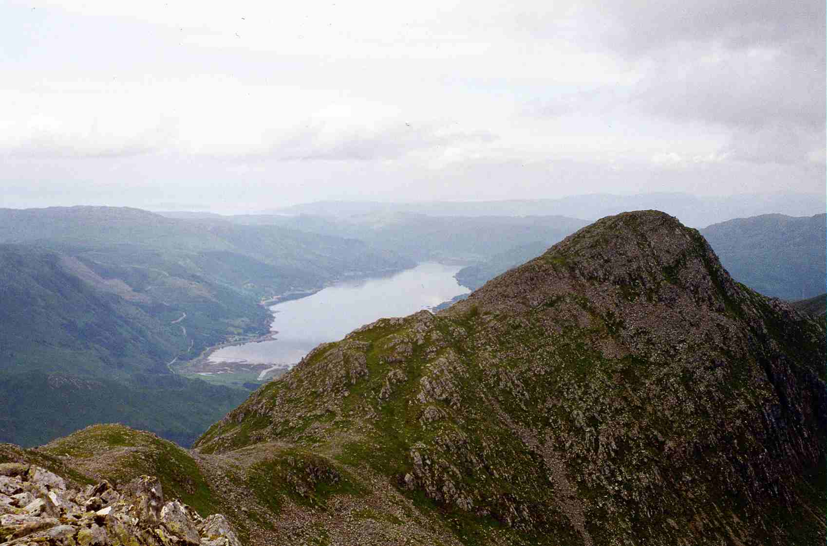 Personal photograph taken by Mick Knapton